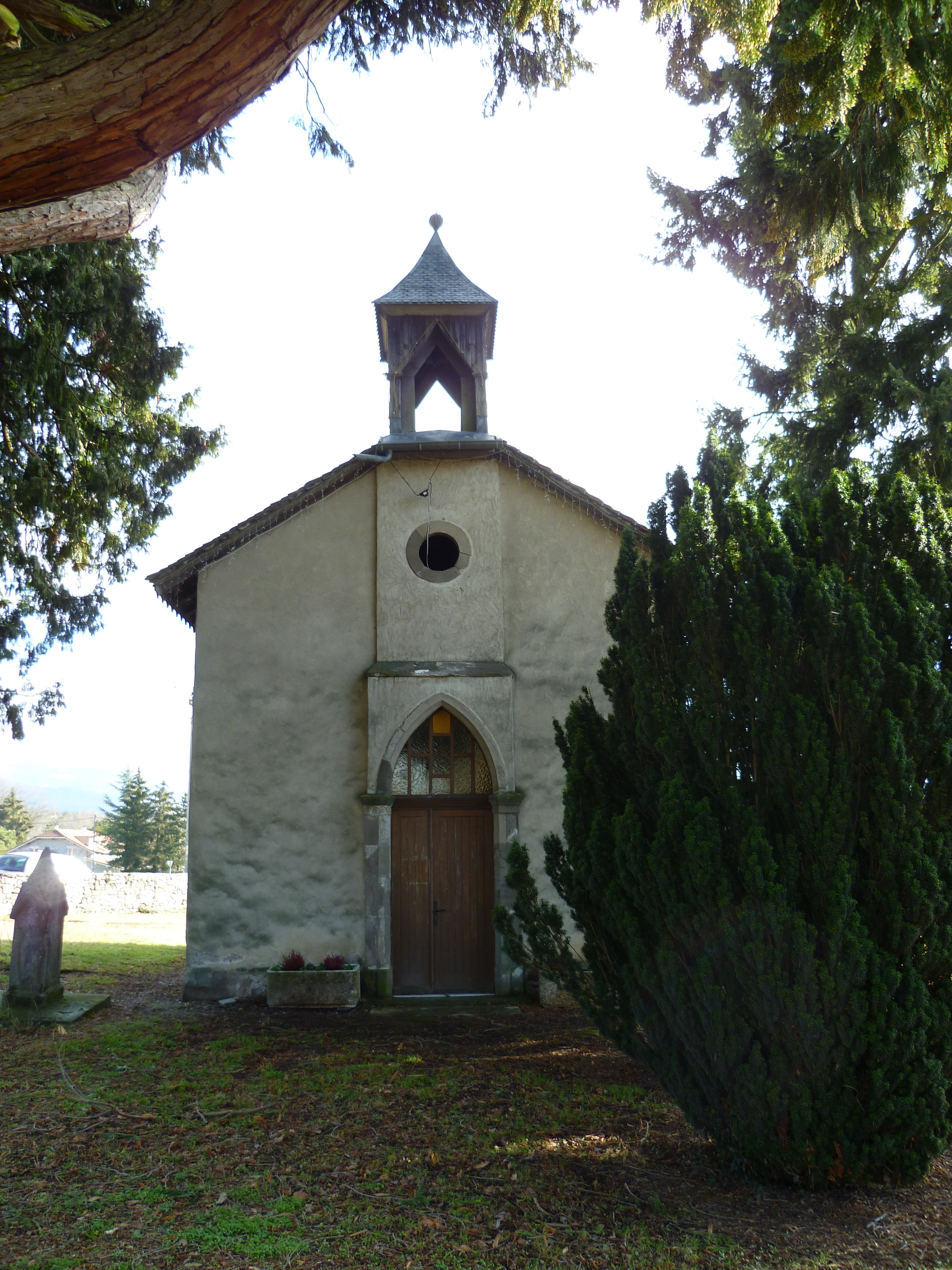 Arthaz-Pont-Notre-Dame Chapel near the Castle. Haute-Savoie, France.